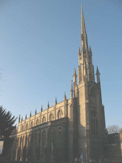 Parish church of St Michael and All Angels, Blackheath Park, London SE3, seen from the southeast